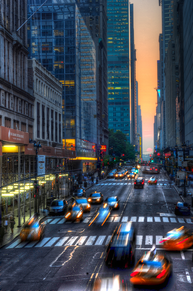 Manhattanhenge occured on May 31st, 2011